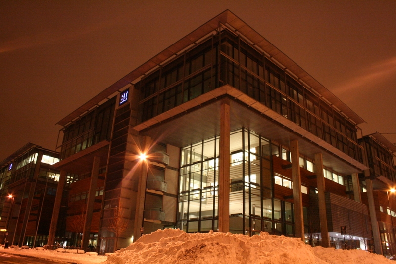 BI Norwegian School of Management, Campus Nydalen, Oslo, Norway.